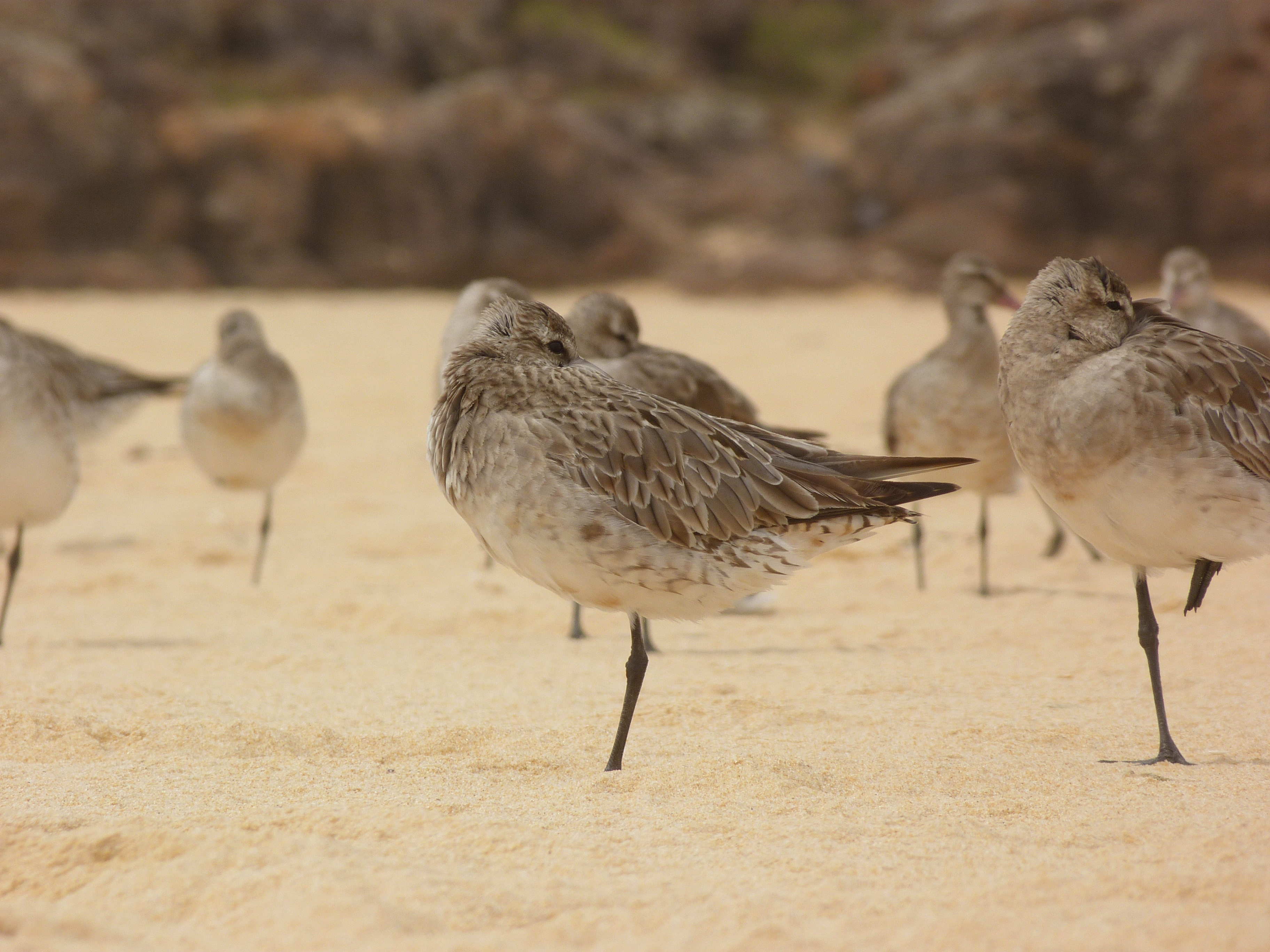 Limosa lapponica (Linnaeus, 1758), Bar-tailed Godwit, Merimbula, NSW, 10 November 2010